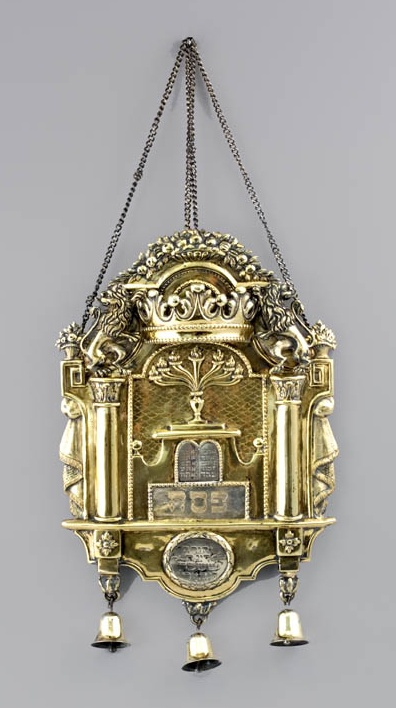 Torah shield dated 1788